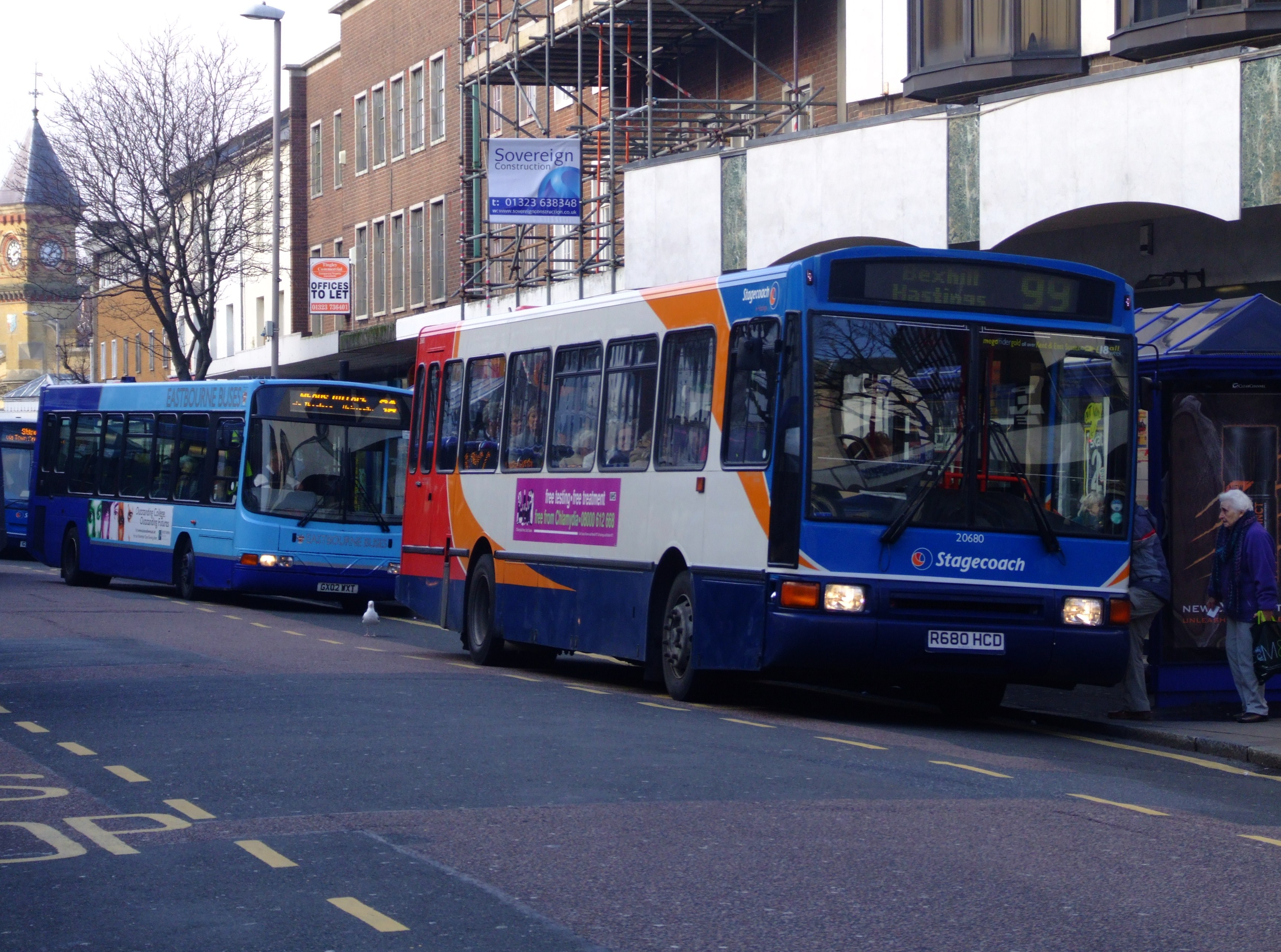 Or at least liveries.